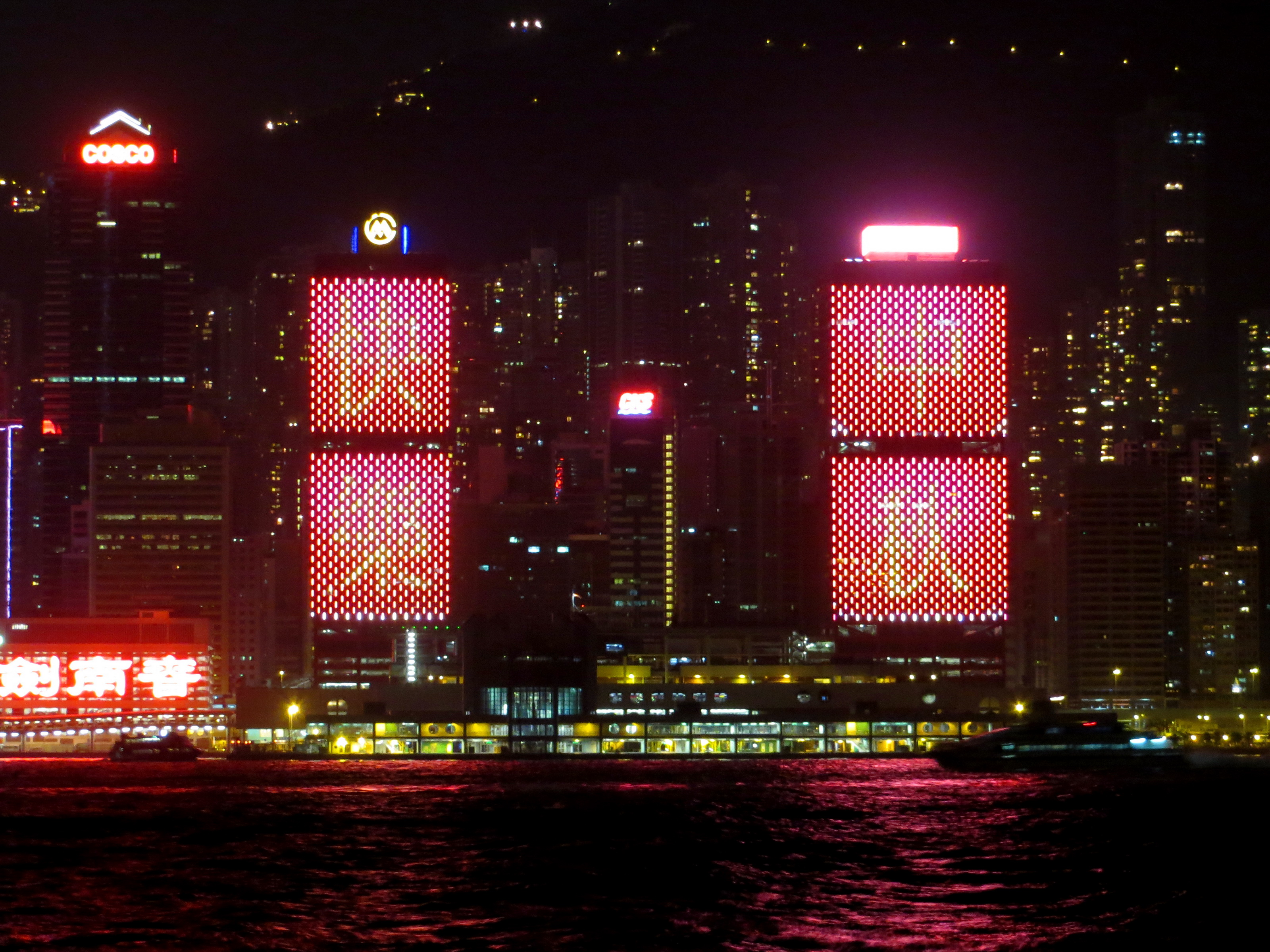 Shun Tak Centre, Hong Kong.